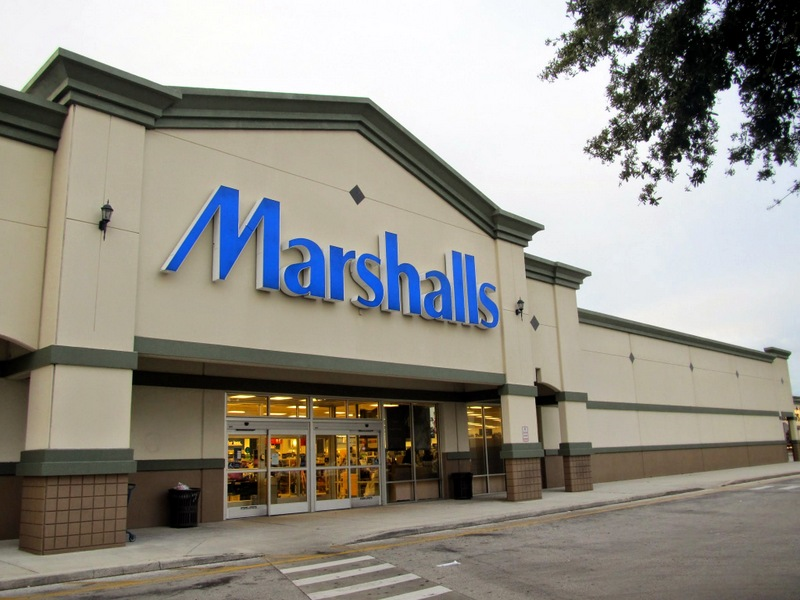 Store in Millenia Plaza